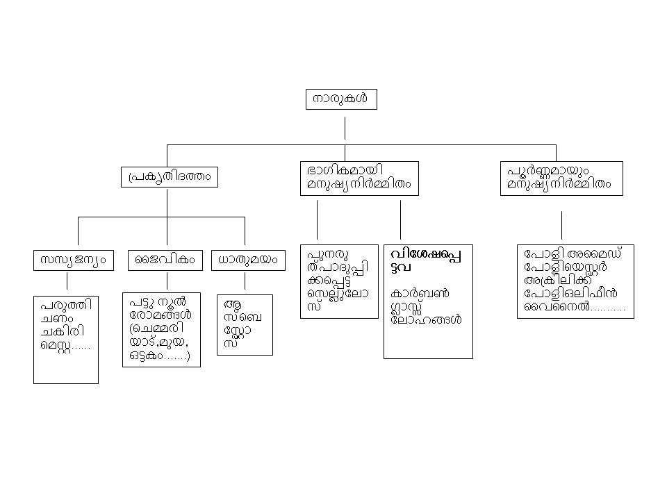 Fibers classification